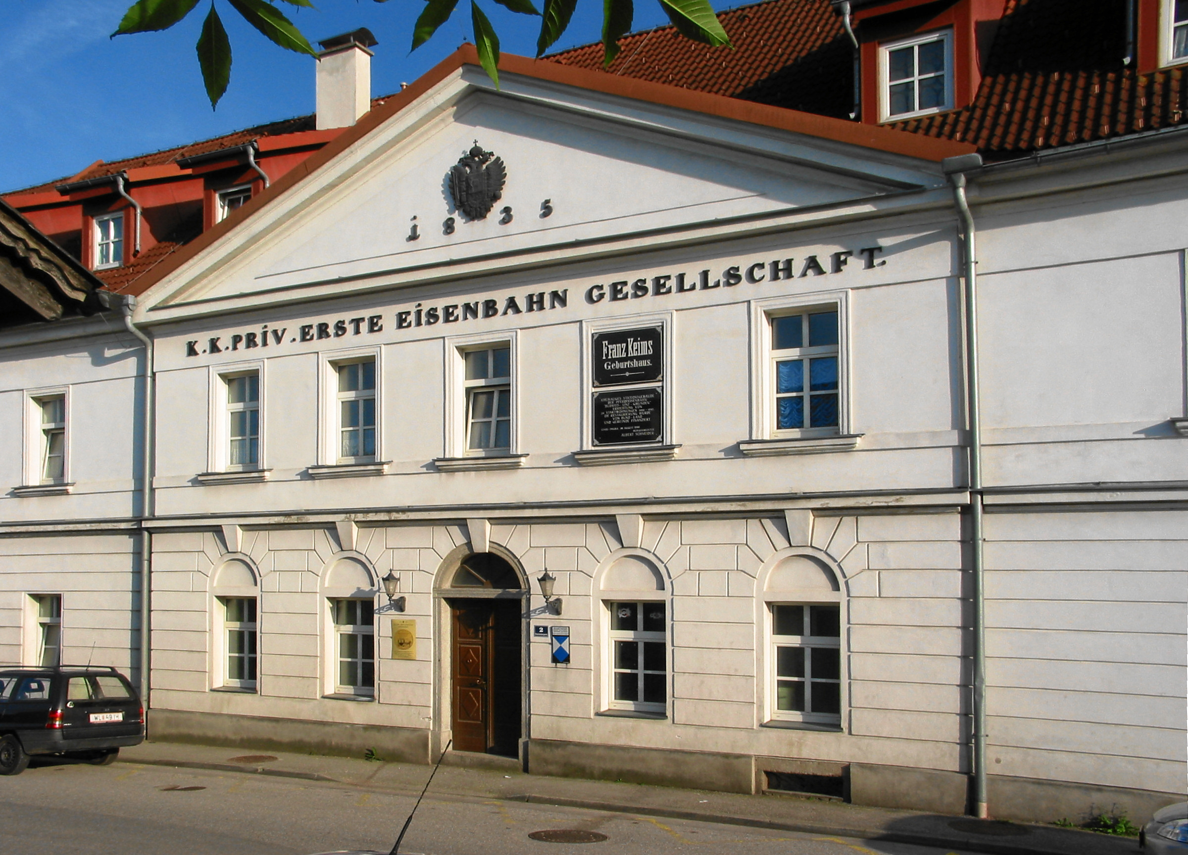 Former station building Lambach of the horse-drawn railway Budweis–Linz–Gmunden, located in Stadl-Paura.